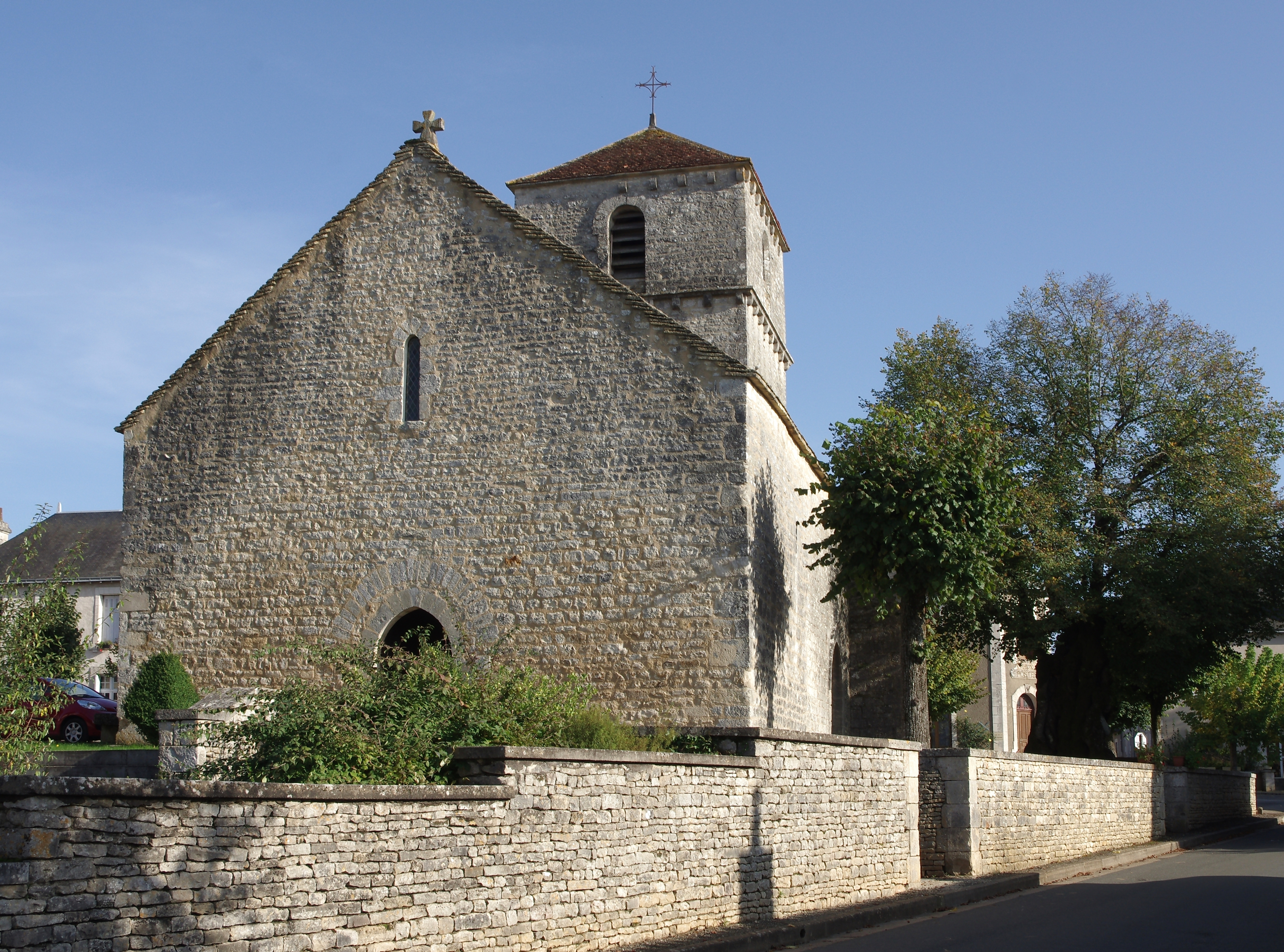 Saint-Martin church. Brux, Vienne, France.